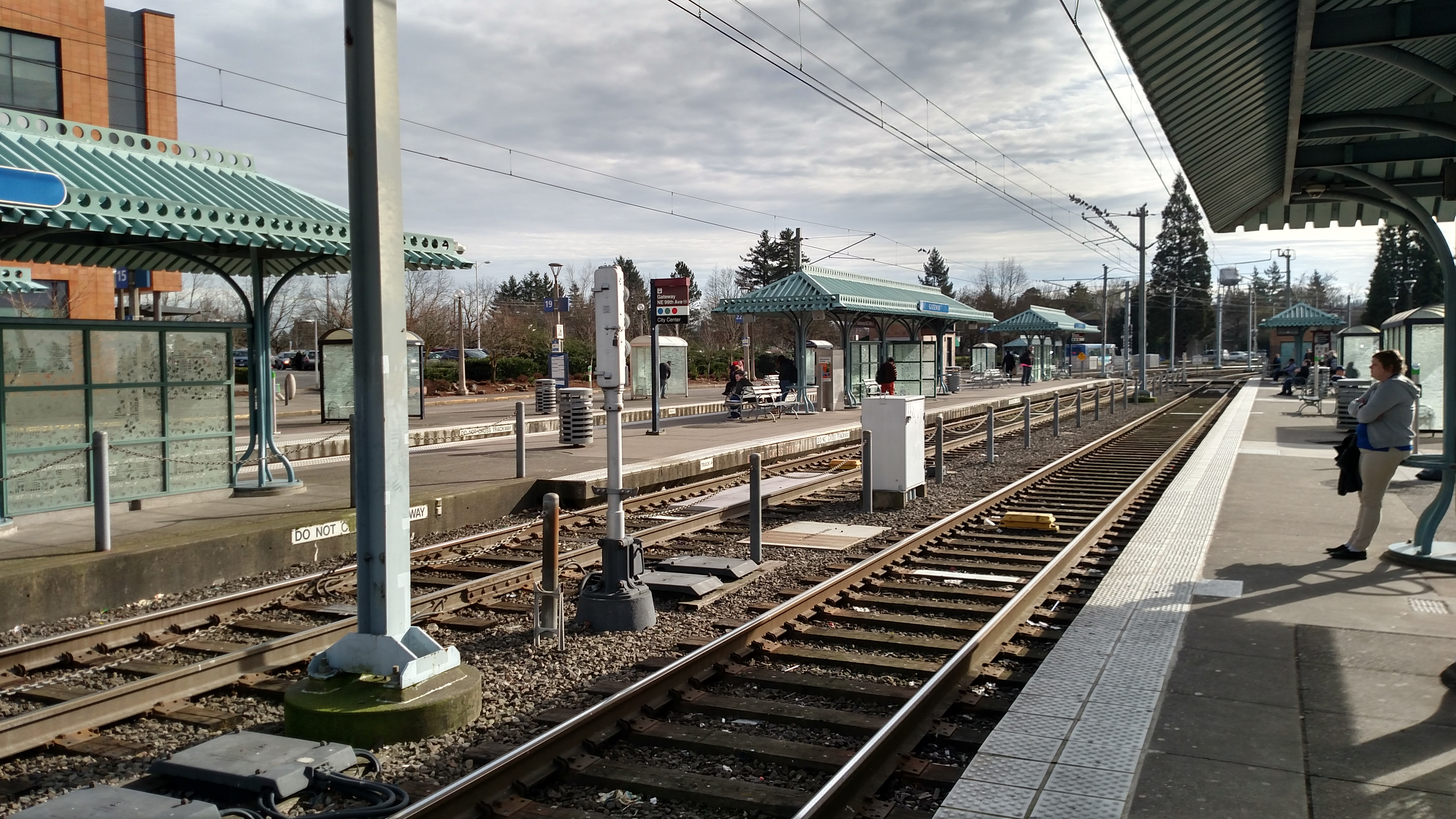 Platforms at Gateway Transit Center in February 2018